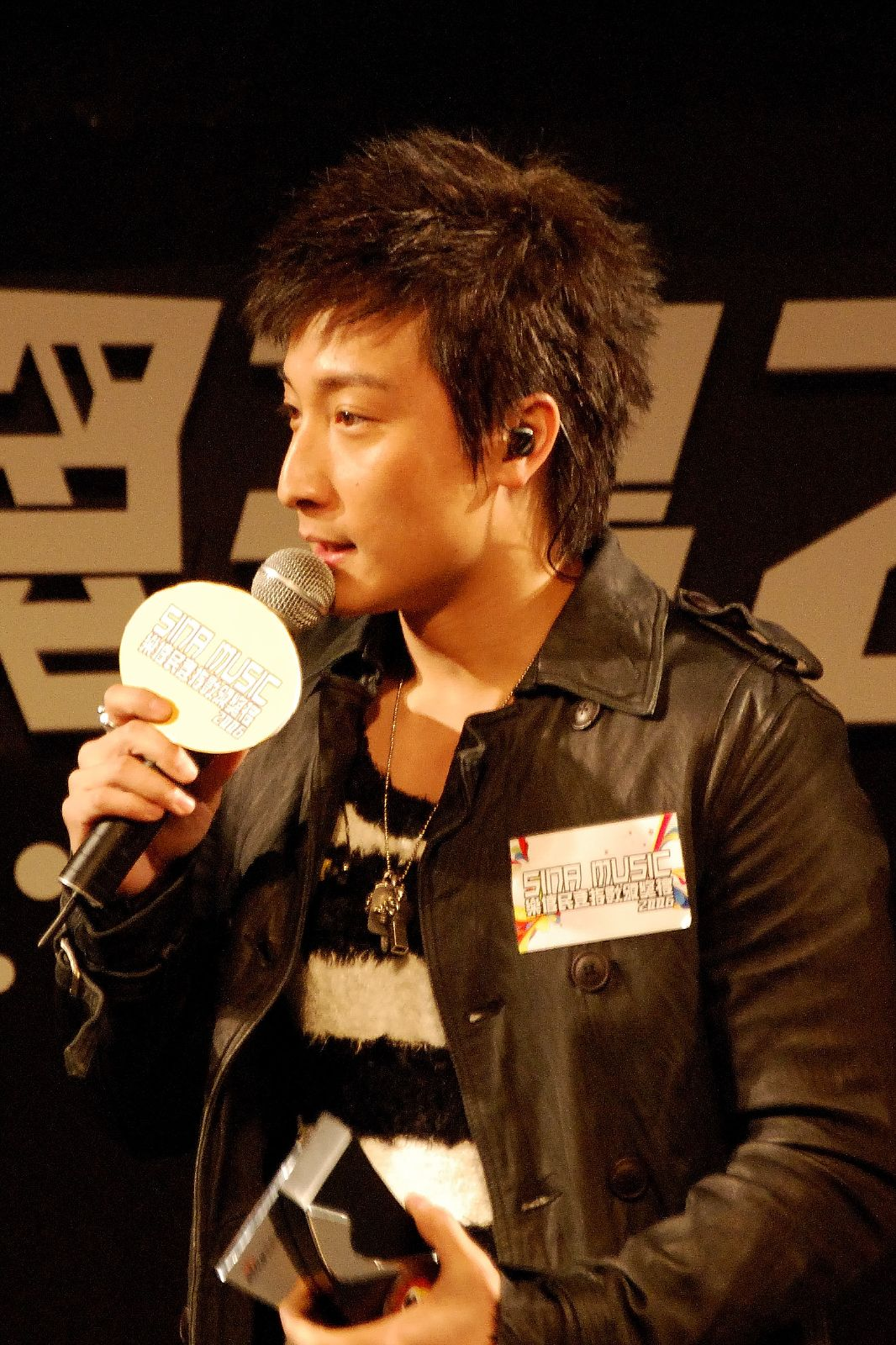 Alex Fong at SINA Music樂壇民意指數頒獎禮 2006 (hosted on 29 January 2007)方力申